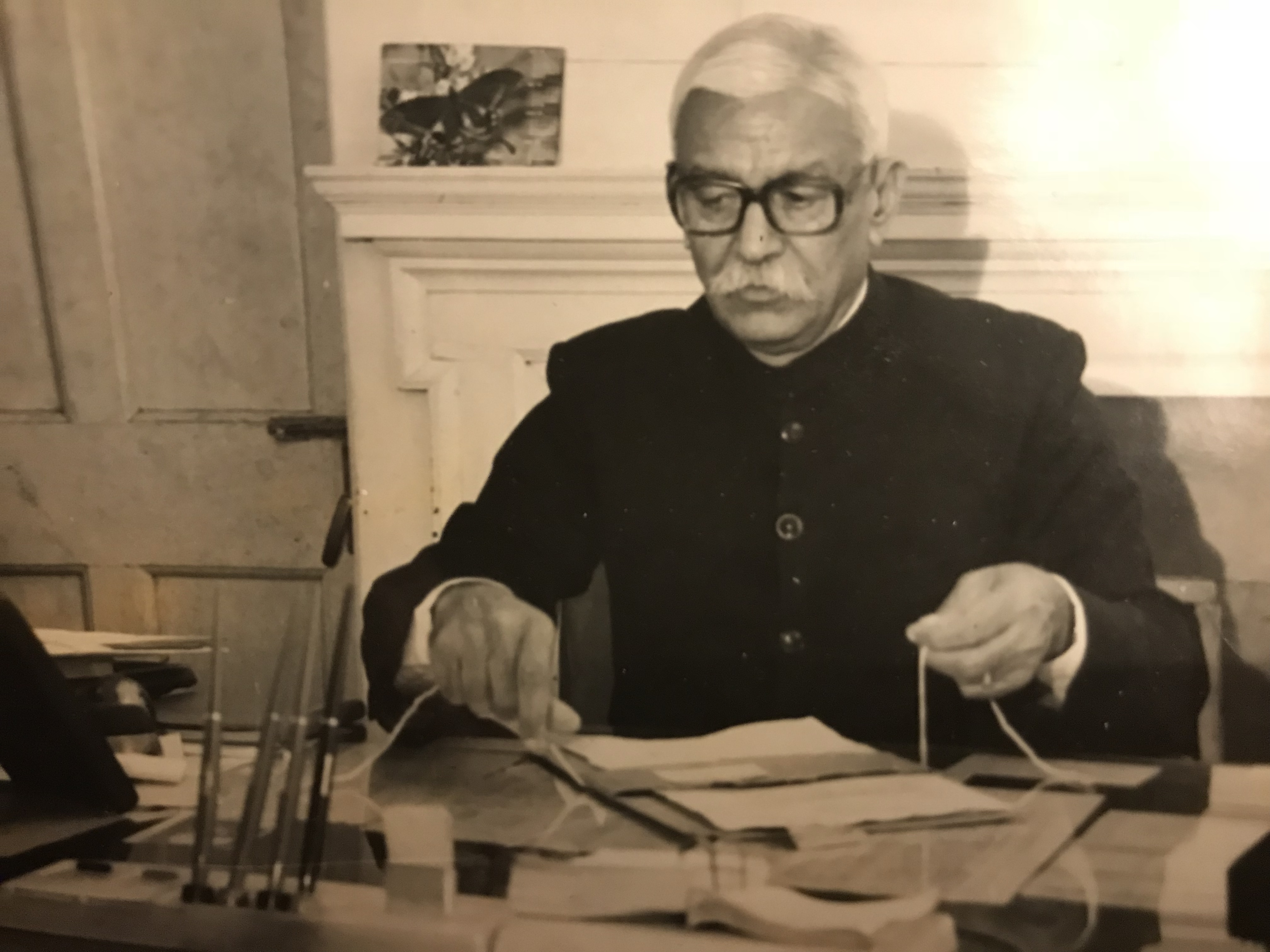 Nitiraj Singh Chaudhary in his office in New Dehli, India.